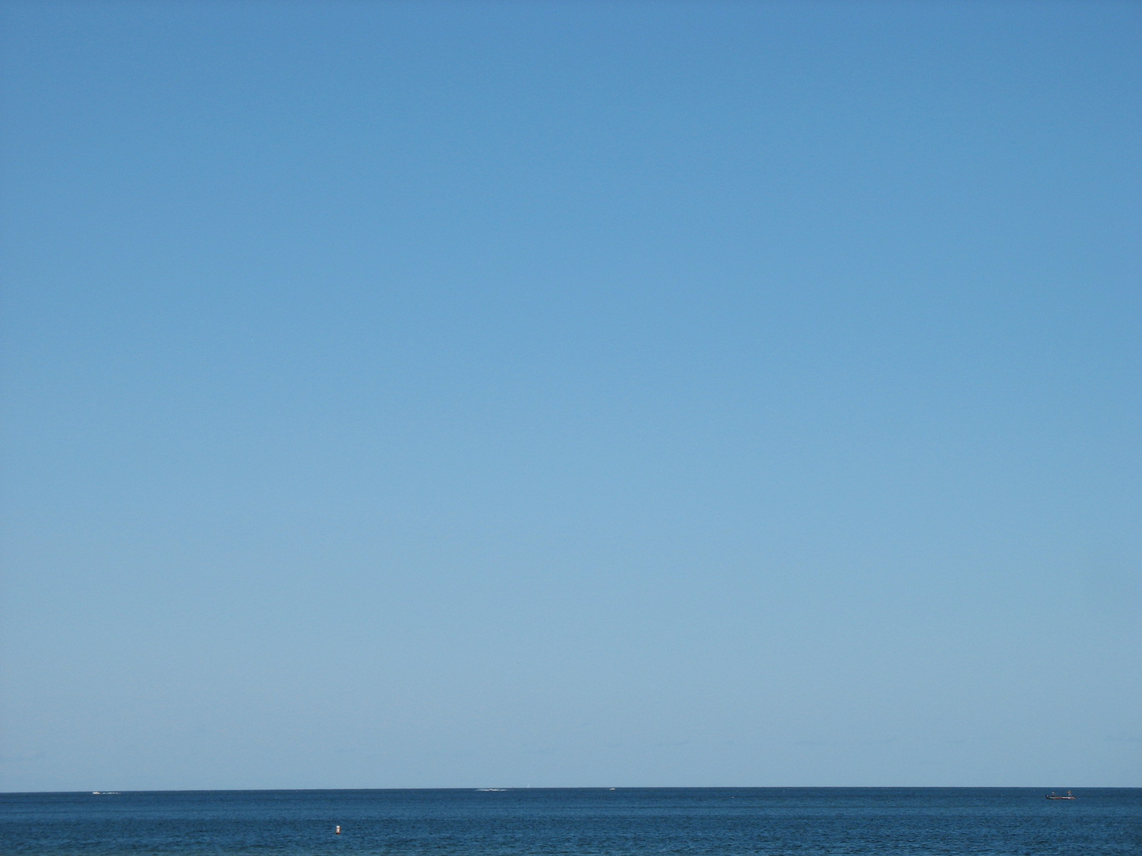 A water horizon in northern Wisconsin, USA.